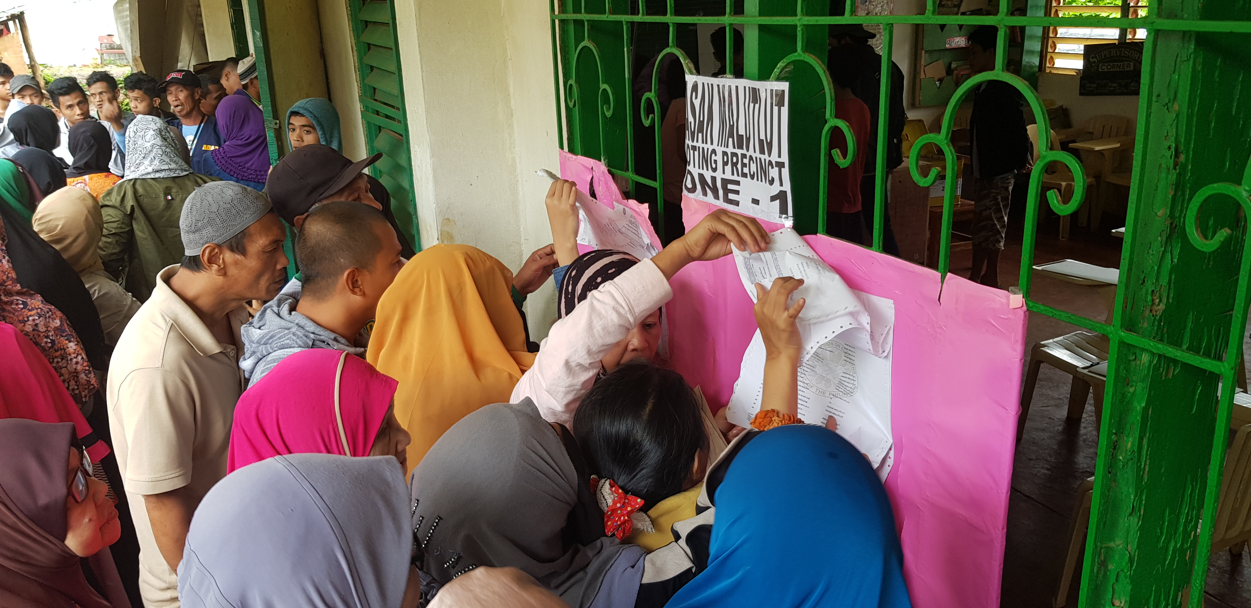 Voters look for their names inside Basak Malutlut Elementary School, Marawi City during the Bangsamoro Organic Law plebiscite Monday (January 21).